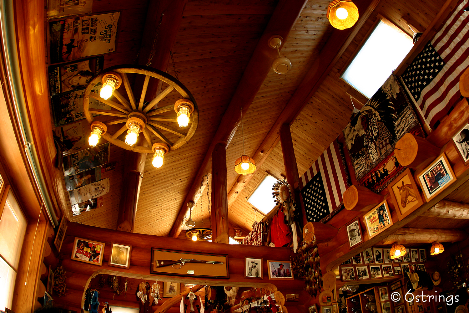 Room filled with "Wild West" paraphernalia.